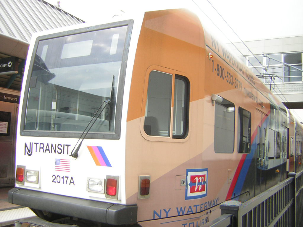 Hudson Bergen Light Rail at Pavonia-Newport heading to Bayonne. Own Work.